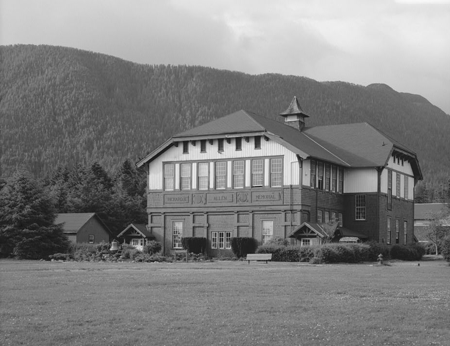 Western view of Richard Allen Memorial Hall on the campus of Sheldon Jackson College, located along Lincoln Street in Sitka, Alaska, United States. Under the name of "Sheldon Jackson School", the college grounds are a National Historic Landmark.